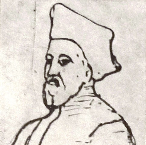 Cristoforo De Castelli